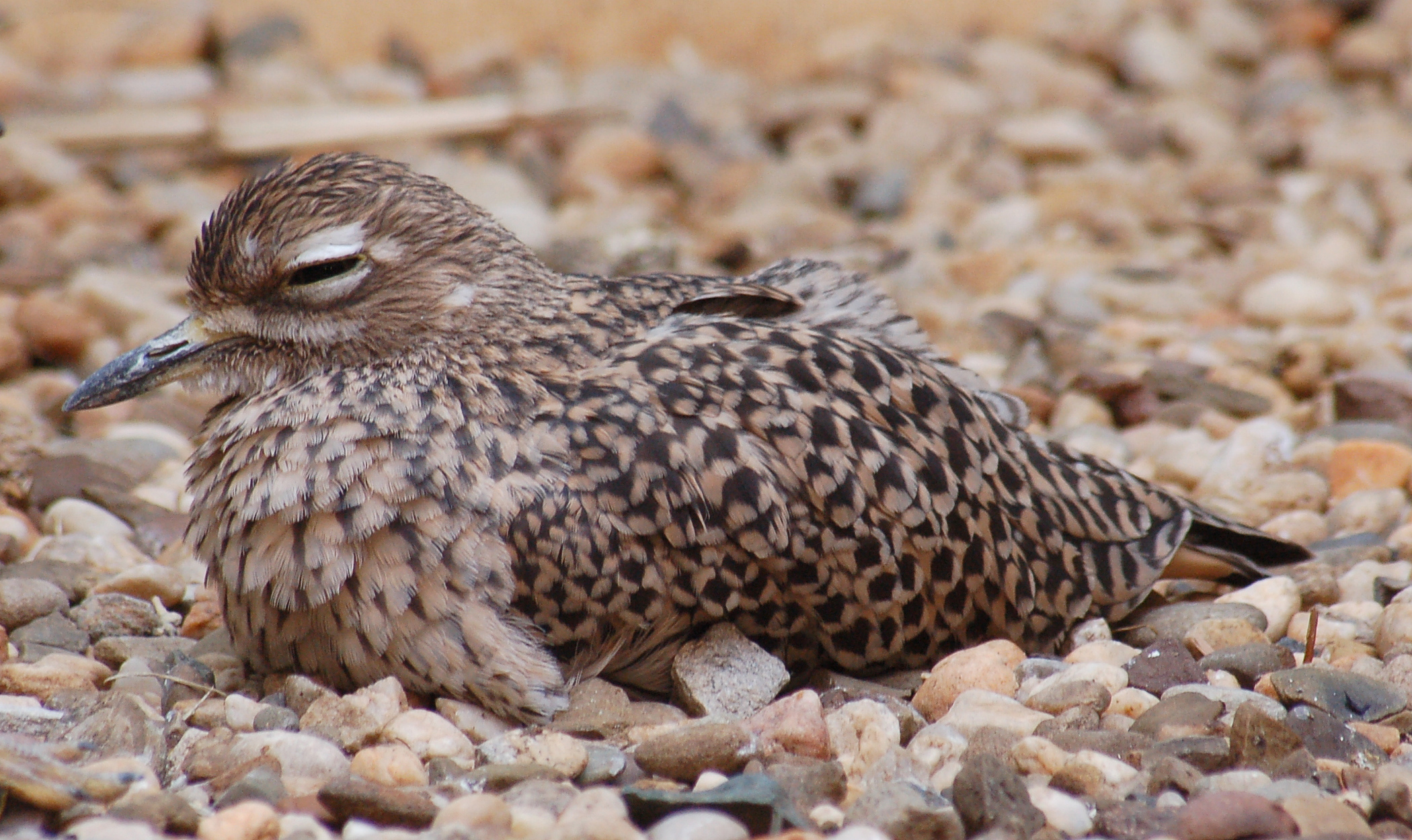 A photograph of a Cape Thick-kneeen (Burhinus capensis en ). Photo taken at the National Aviary.